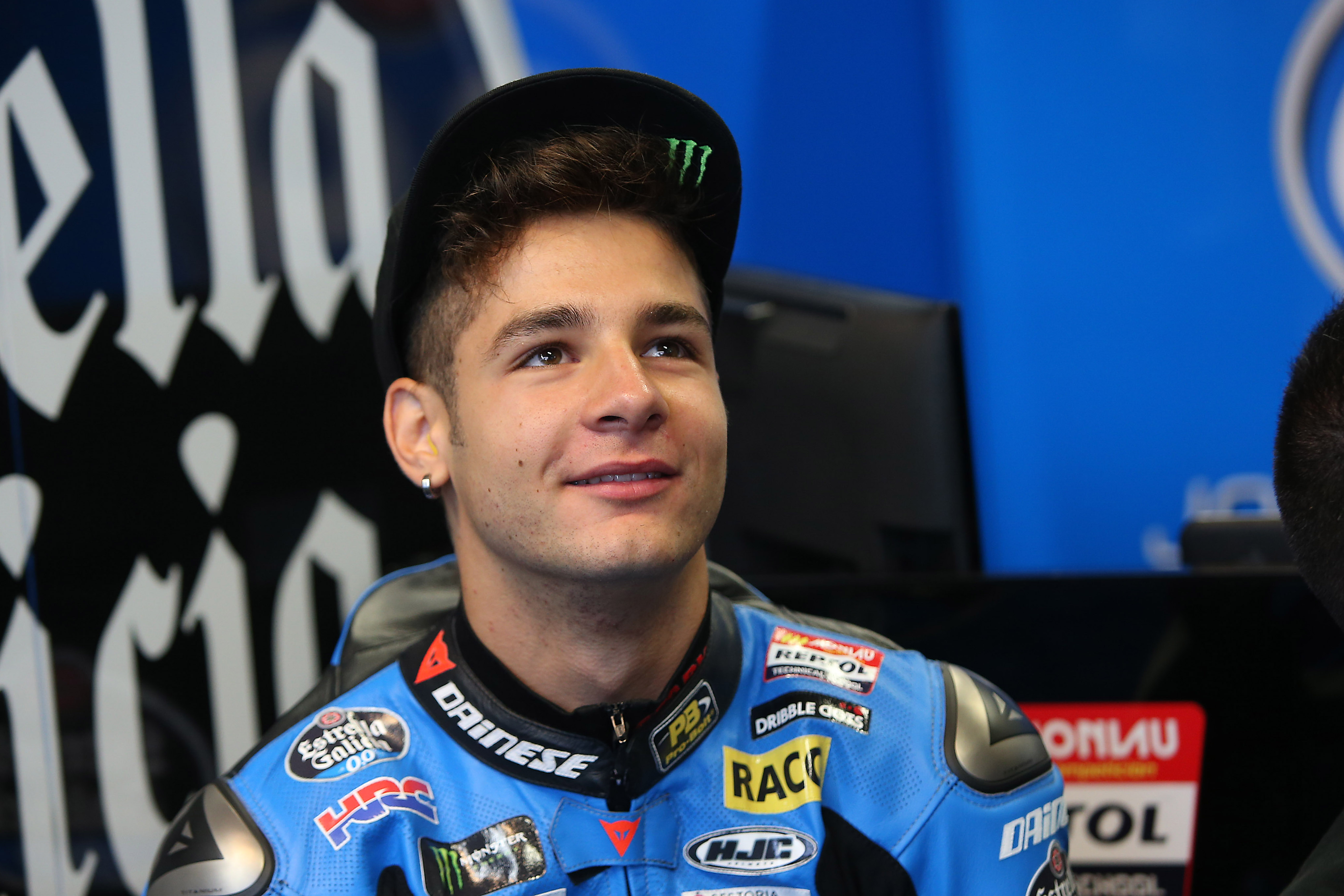 Lorenzo Dalla Porta in 2016